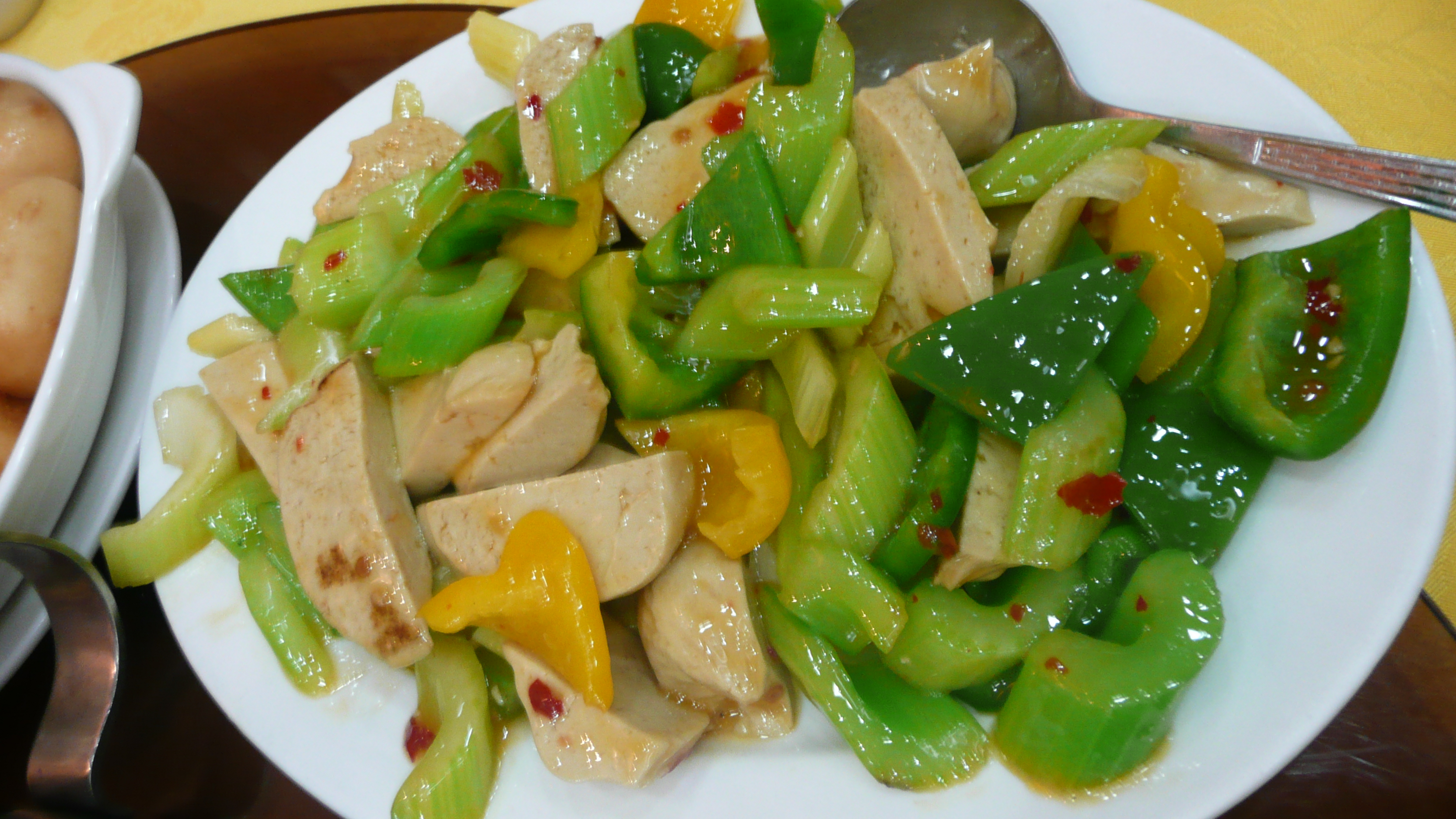 Cuisine of China, Hongkong